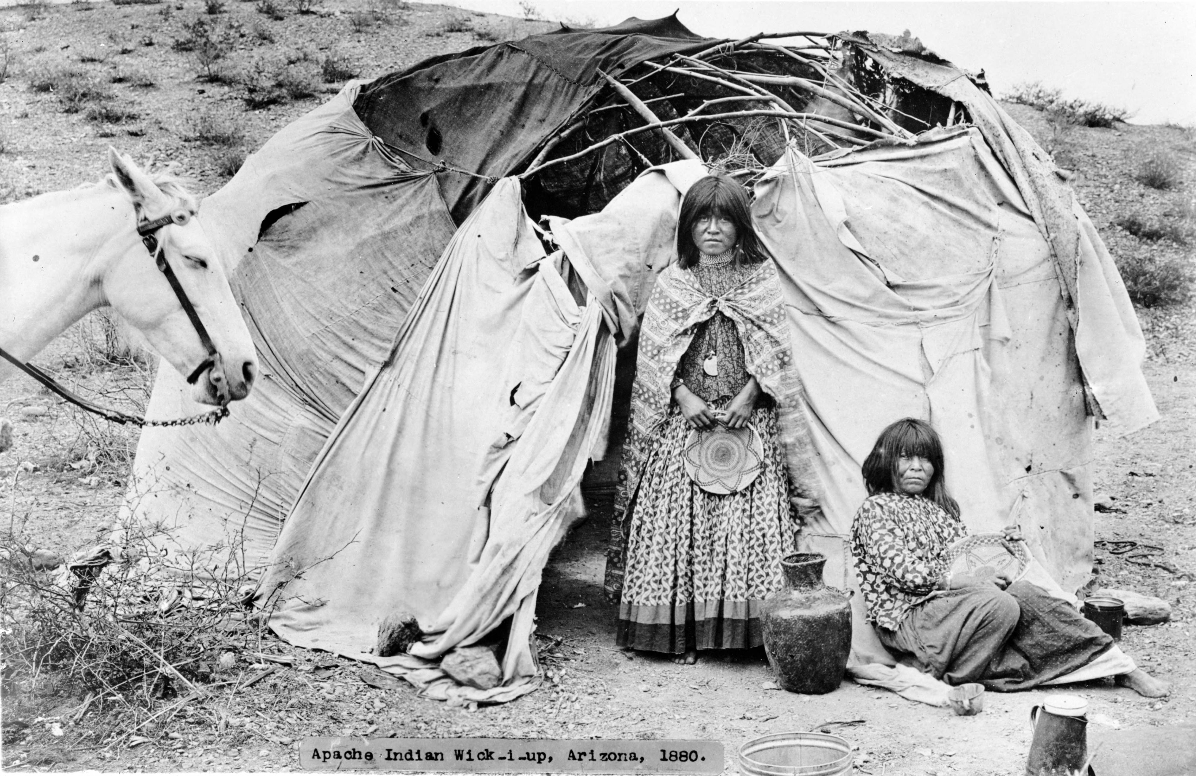 View of two Native American Apache women outside their cloth covered wickiups in a camp in Arizona. They wear print skirts, blouses and shawls and hold baskets. A basket, pitch covered basket jar, metal coffee pot, cup, can, and a horse show in the camp.